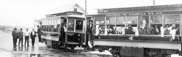 Florida Gov. David Sholtz's father Michael Sholtz built the concrete bridge in the background and owned this streetcar line.